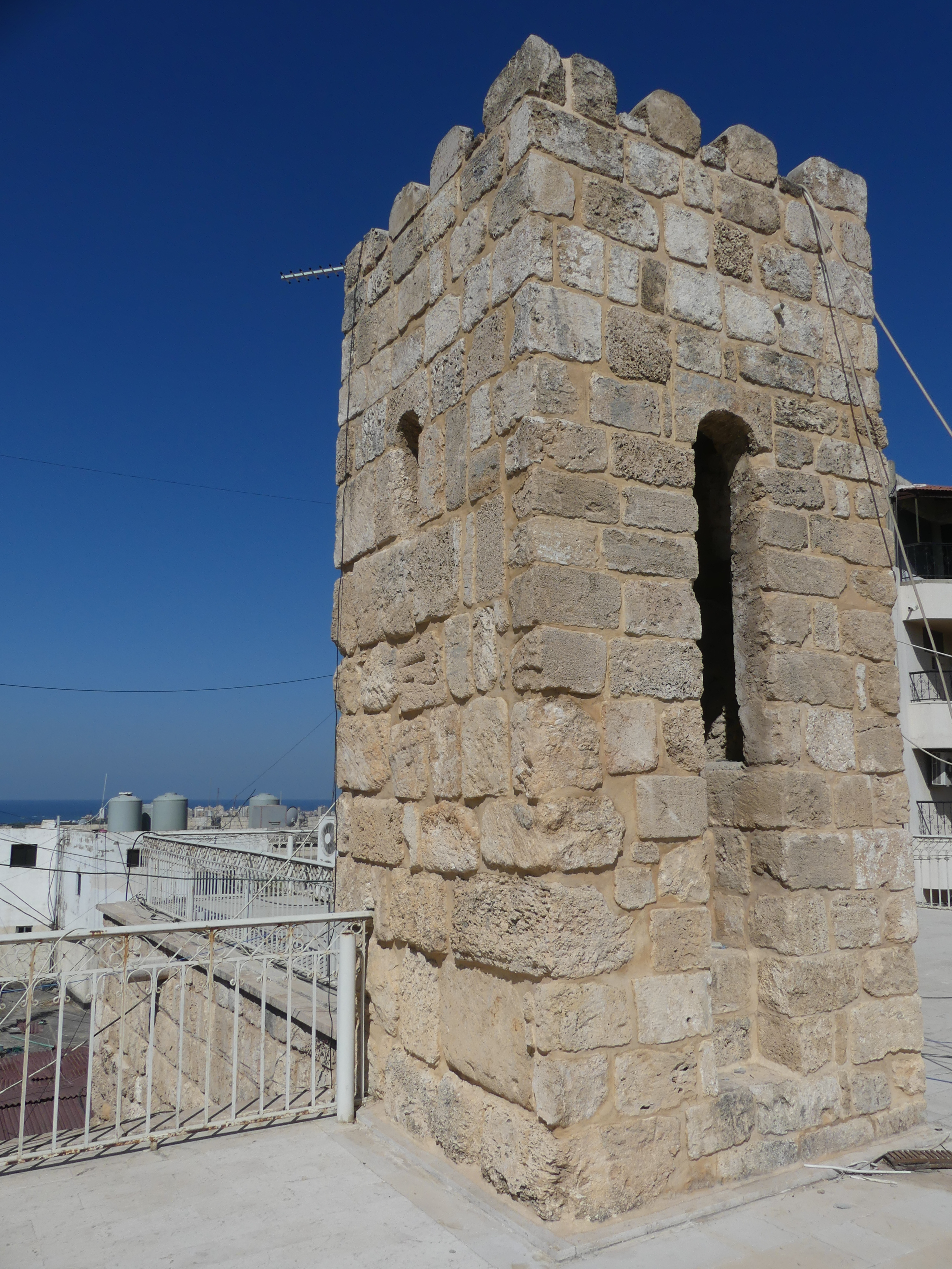 The 12th/13th century Crusader Tower in the village of Burj el-Shimali ("Northern Tower") overlooking the pensinsula of the city of Tyre/Sour in Southern Lebanon